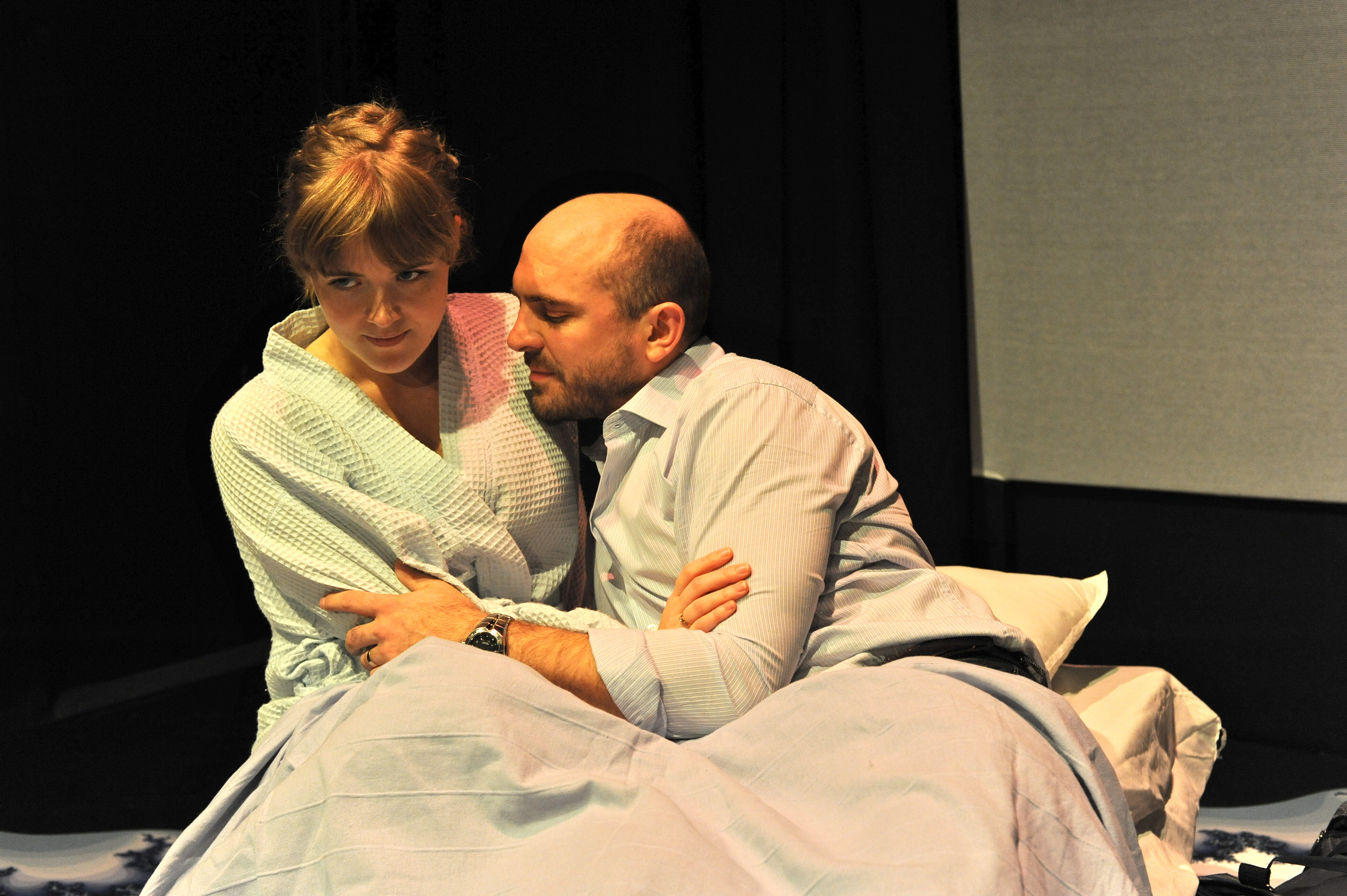 Older Elspeth, played by Jo Hartstone, and Older David, played by John Maurice, in Molly's Shoes